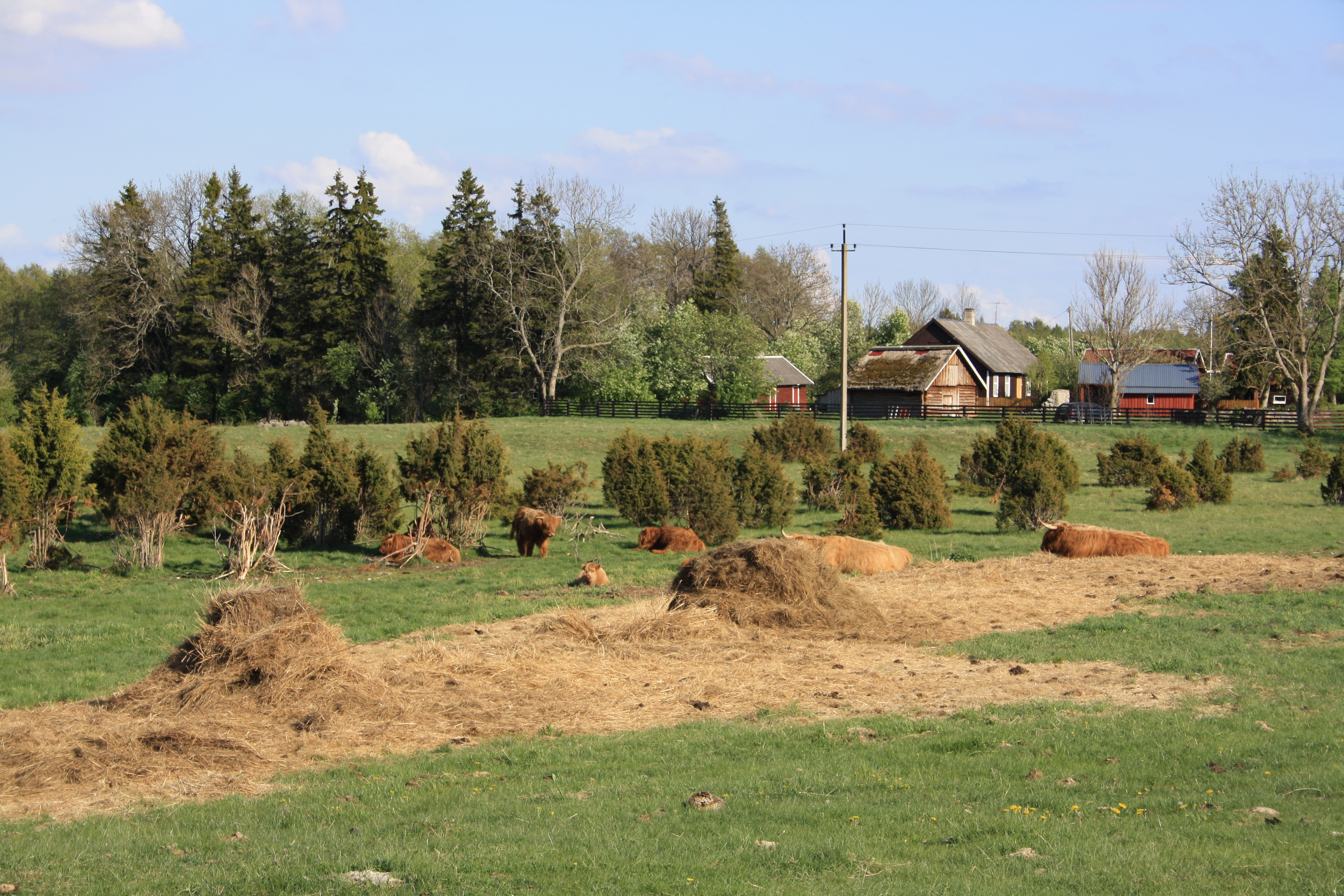 Paddoc in Rälby village on Vormsi island in Estonia.